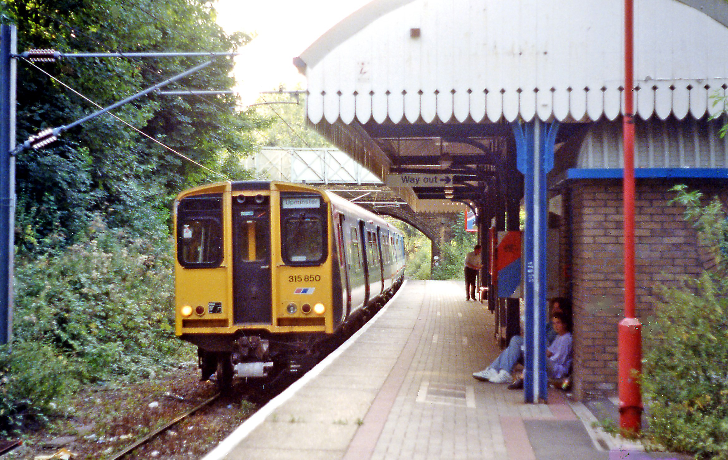 Emerson Park station, with train 1991. View westward, towards Romford: ex-Midland (LT&S Railway) Romford - Upminster - Grays branch. In May 1968 this station was elevated from Halt status and in modern times the line has been worked by two separate shuttles: Romford - Upminster; Upminster - Grays. The Class 315 EMU is returning on a shuttle to Upminster.